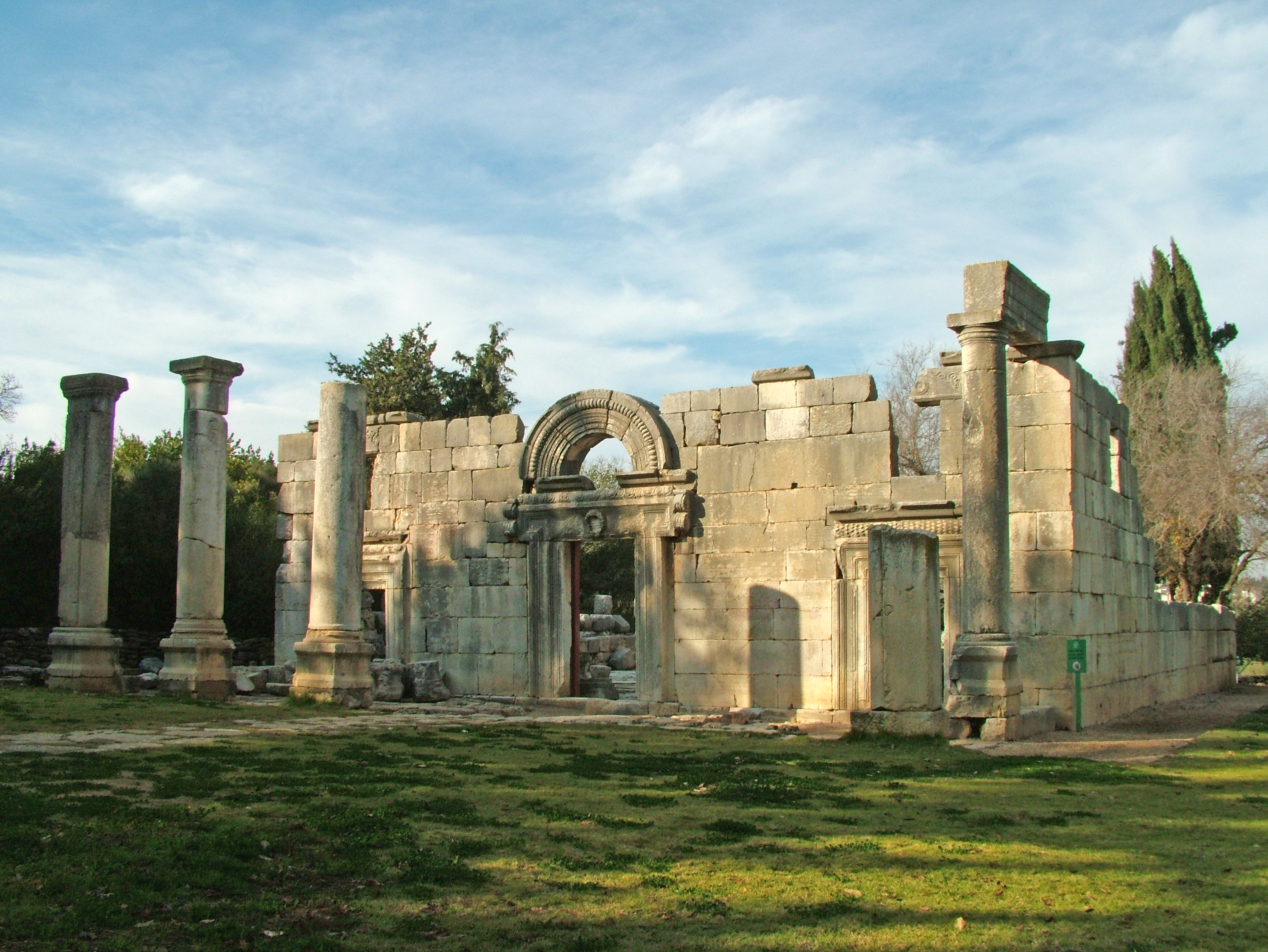 Ruins of the ancient synagogue in Kibbutz Bar'am in Northern Israel. The ruins are located within the site of the ancient village of Kfar Bar'am, about three kilometers from the Lebanese border.